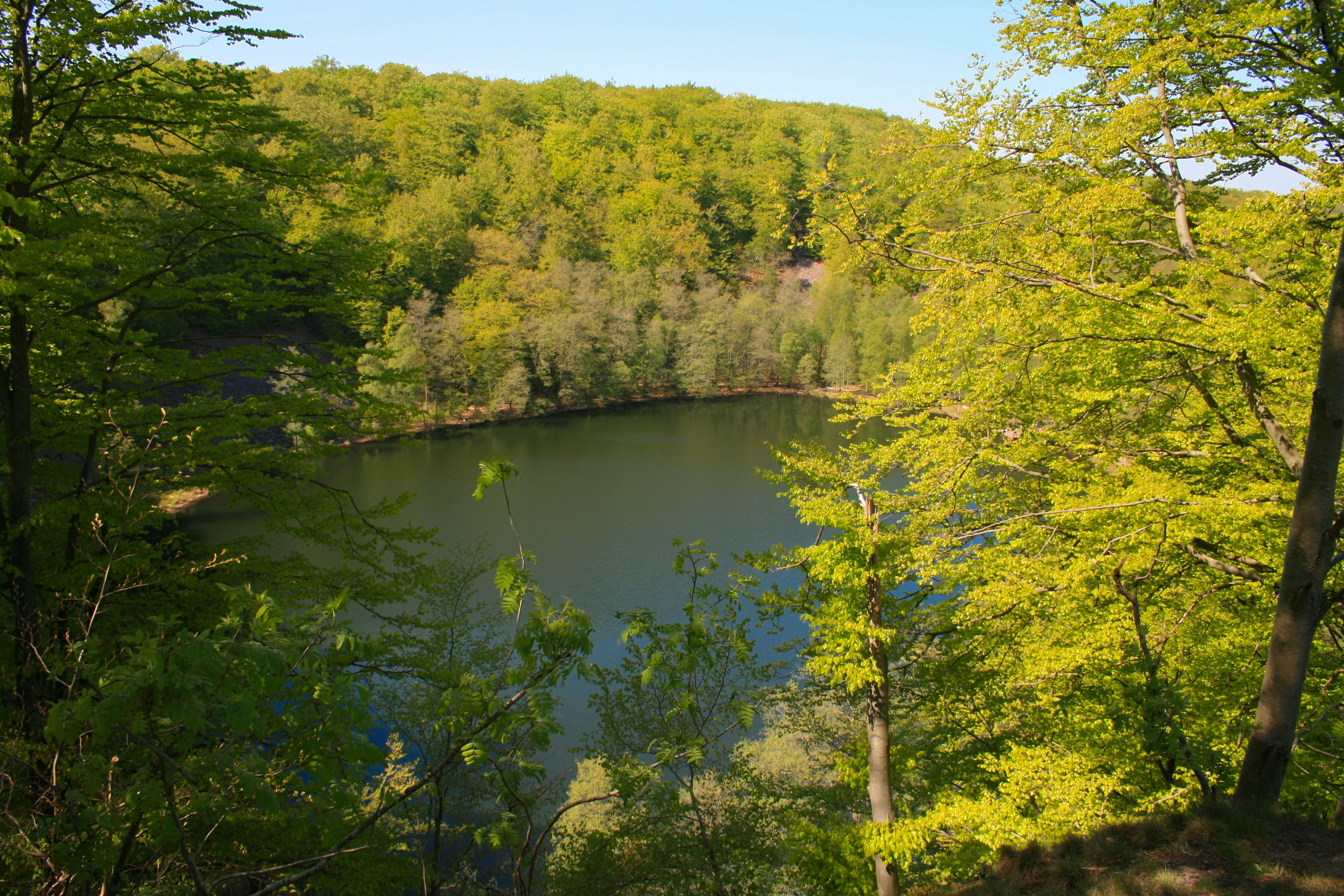 Odensjön lake from above, in Söderåsen national park